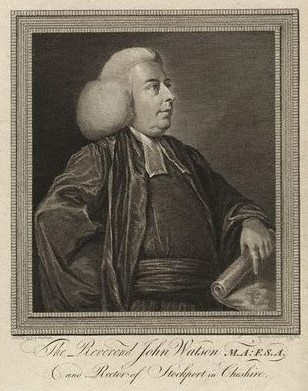 Portrait of John Watson (1725–1783), English clergyman and antiquary.